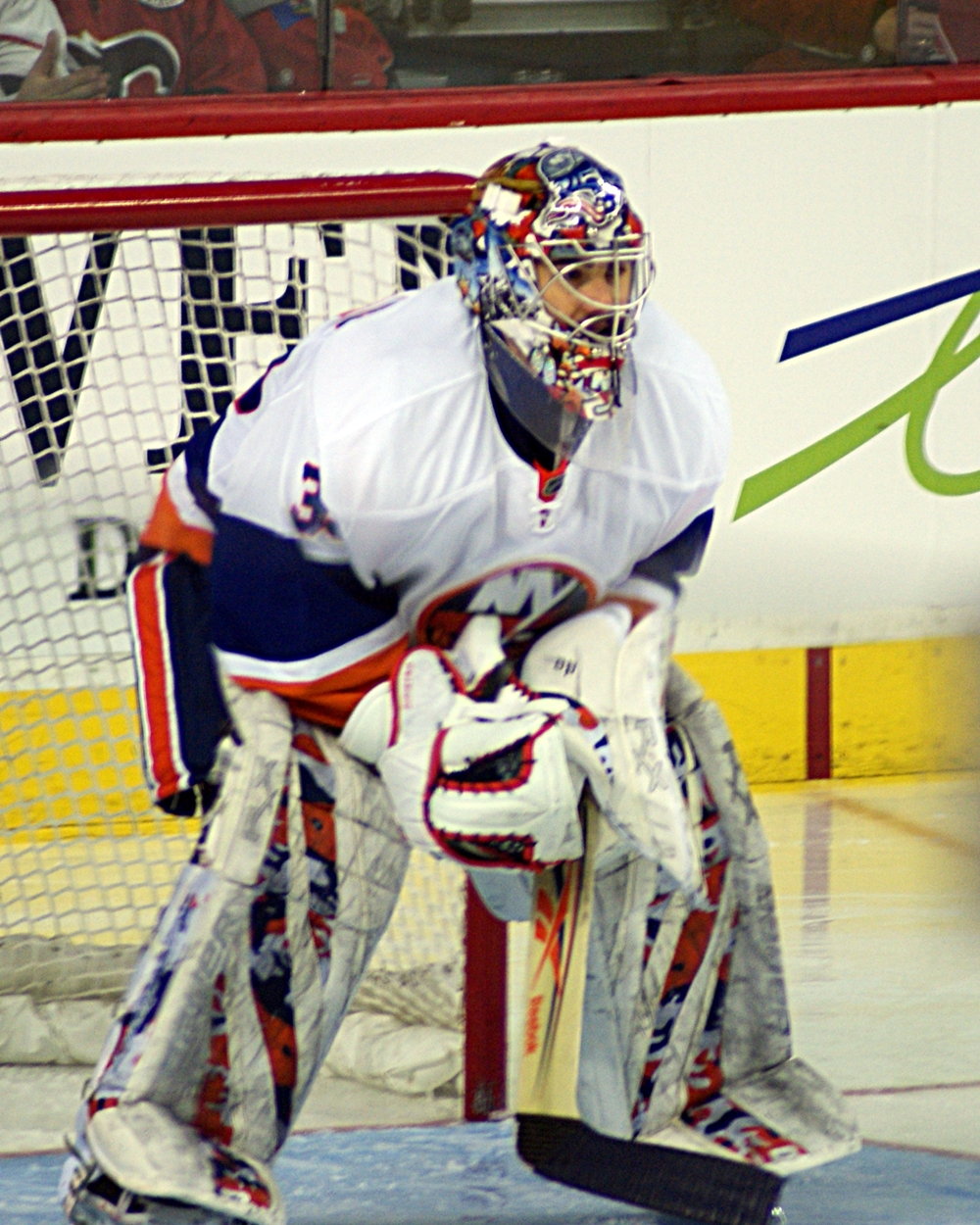 Rick DiPietro, Jr., born September 19, 1981 in Winthrop, Massachusetts, is an American professional ice hockey goaltender currently playing for the New York Islanders of the National Hockey League (NHL). Photo taken on January 3, 2011 at the Scotiabank Saddledome in Calgary, Alberta, Canada